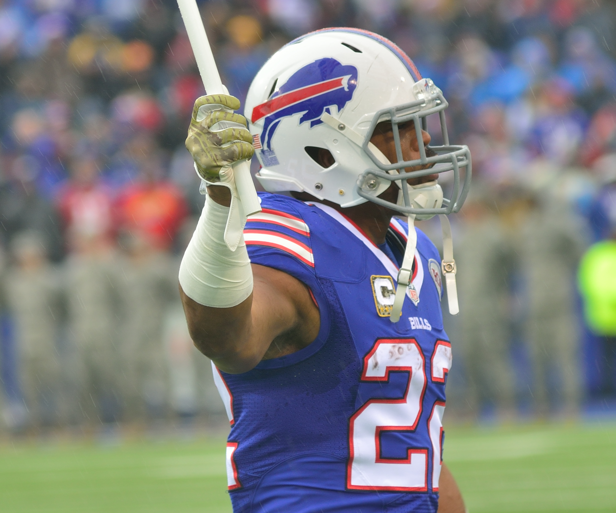 Buffalo Bills running back, Fred Jackson, before the start of a game on November 9, 2014.